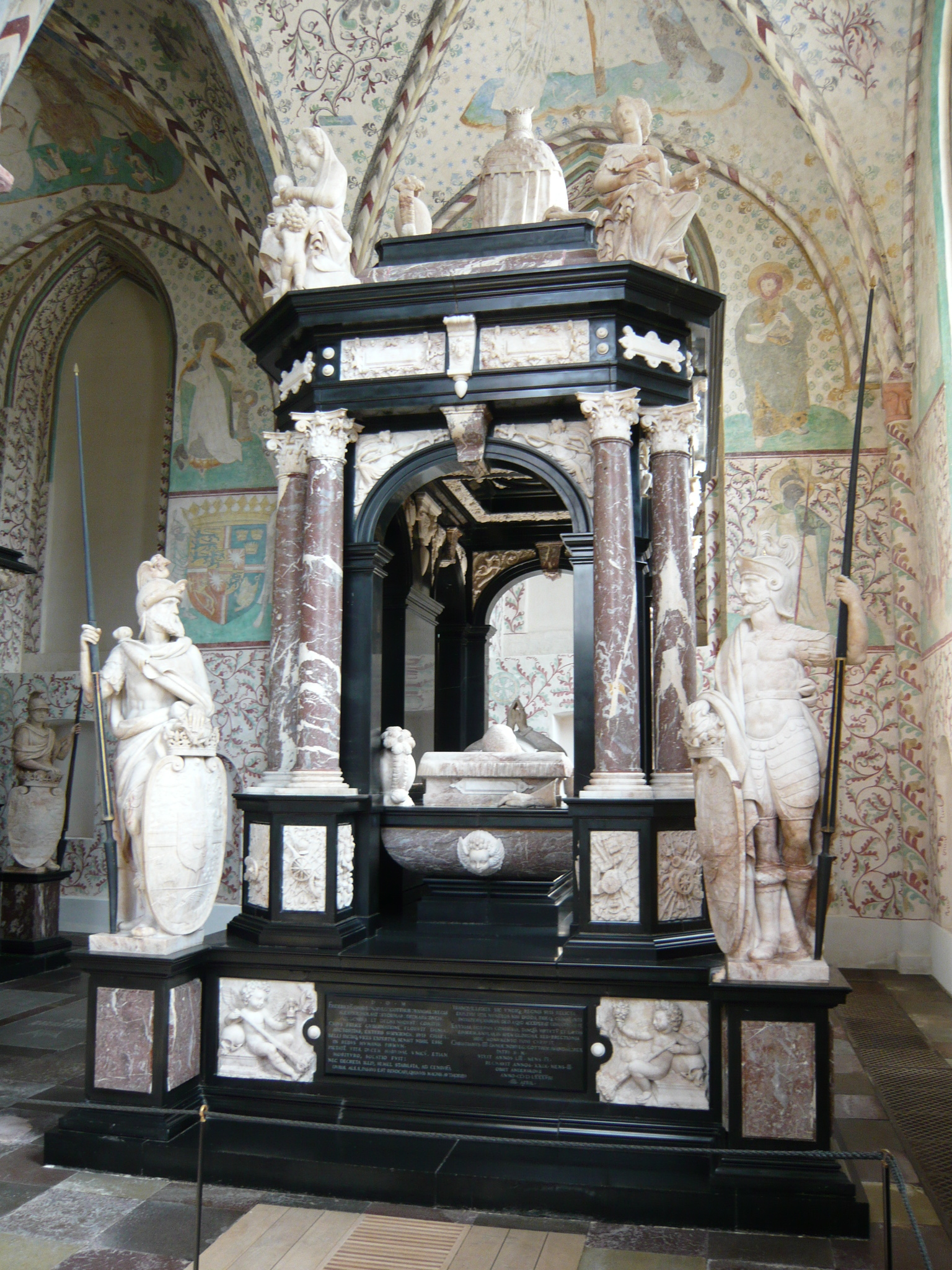 The sepulchral monument of Frederick II of Denmark (1534-1588) and Sophie of Mecklenburg-Güstrow (1557-1631).